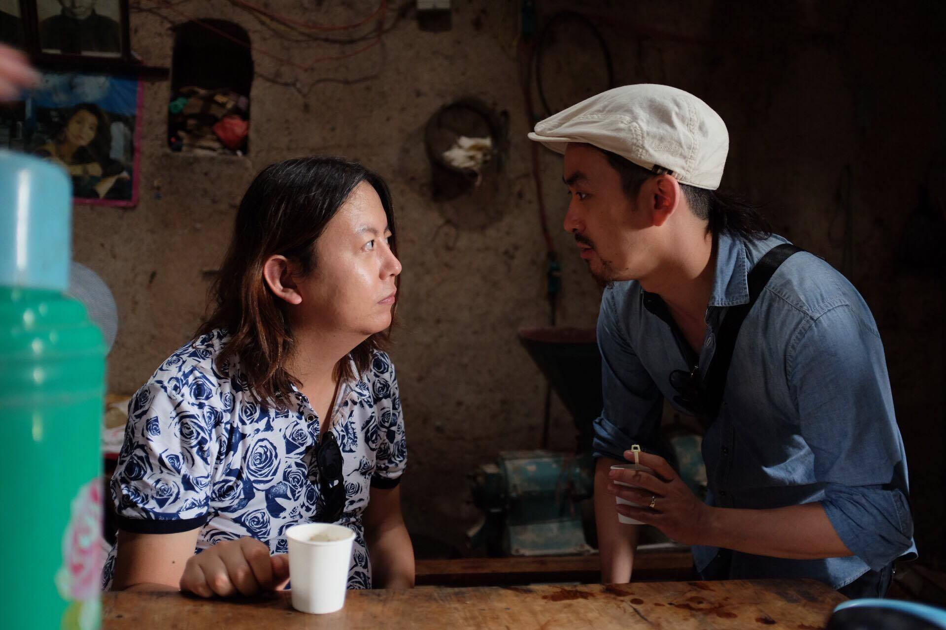 Sunken Plum (Dir. Roberto F. Canuto & Xu Xiaoxi), Trilogy Invisible Chengdu. Behind the Scene picture with director Xu Xiaoxi and main actor Gu Xiang.